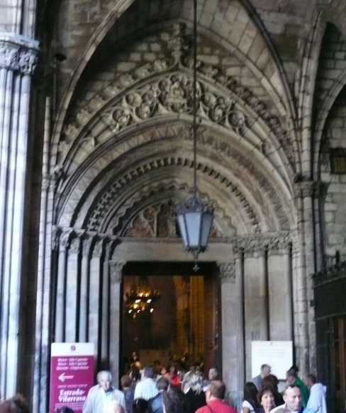 Cloister door, cathedral of Barcelona